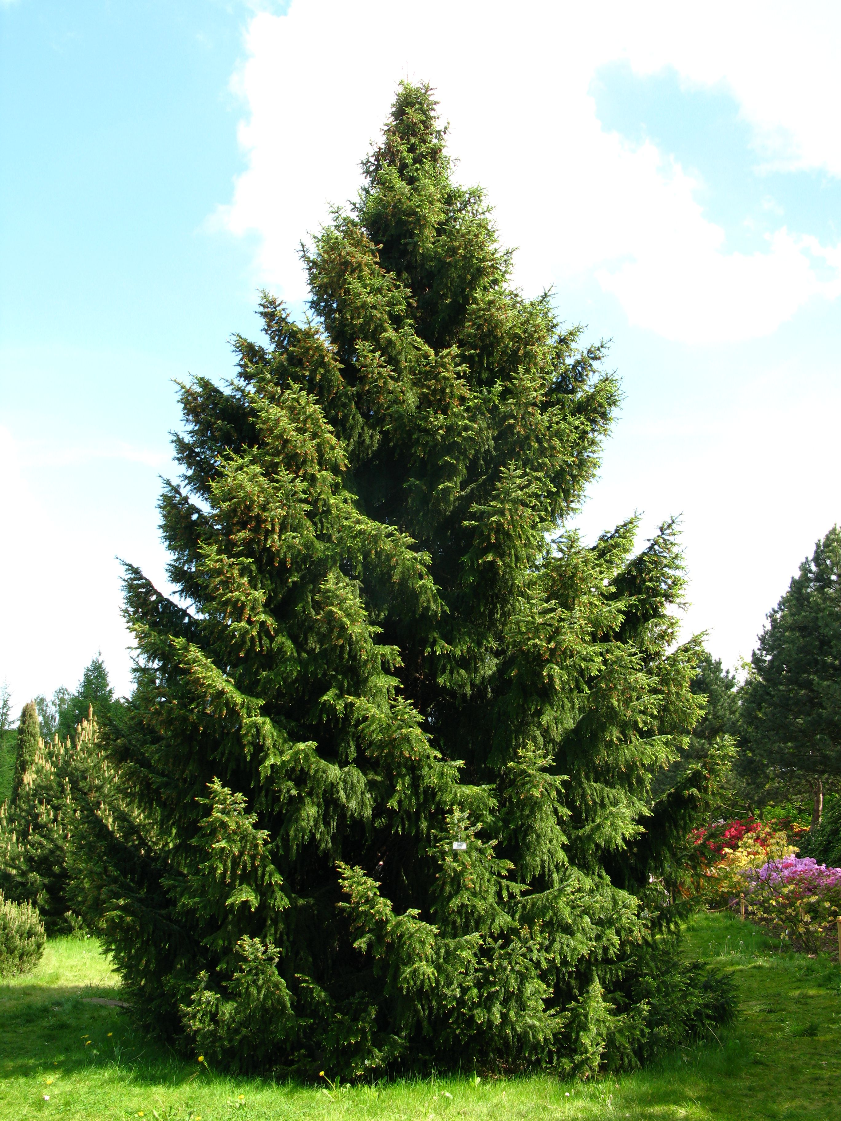 Picea omorika in PAN Botanical Garden in Warsaw